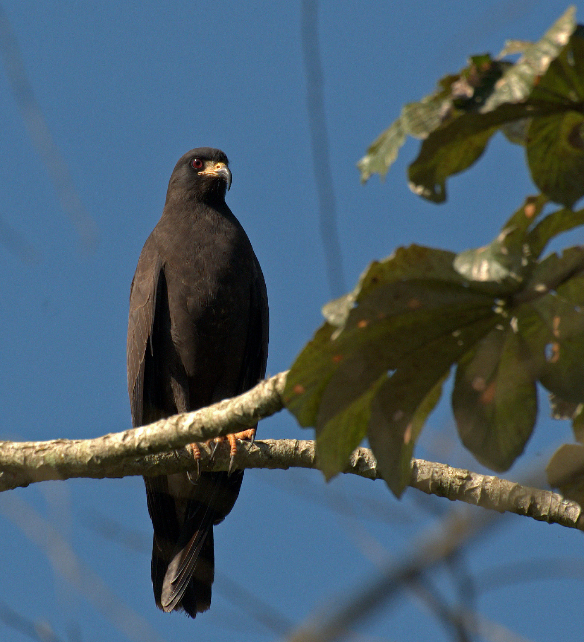 A male Snail Kite in Vale do Ribeira, Registro, São Paulo, Brazil.